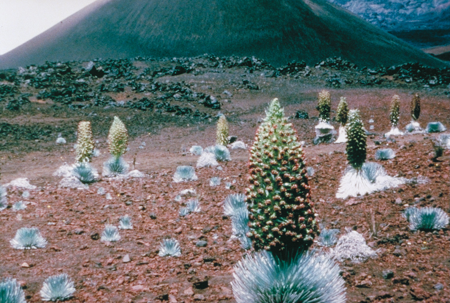 Young silverswords on the Haleakala, Maui, Hawaii